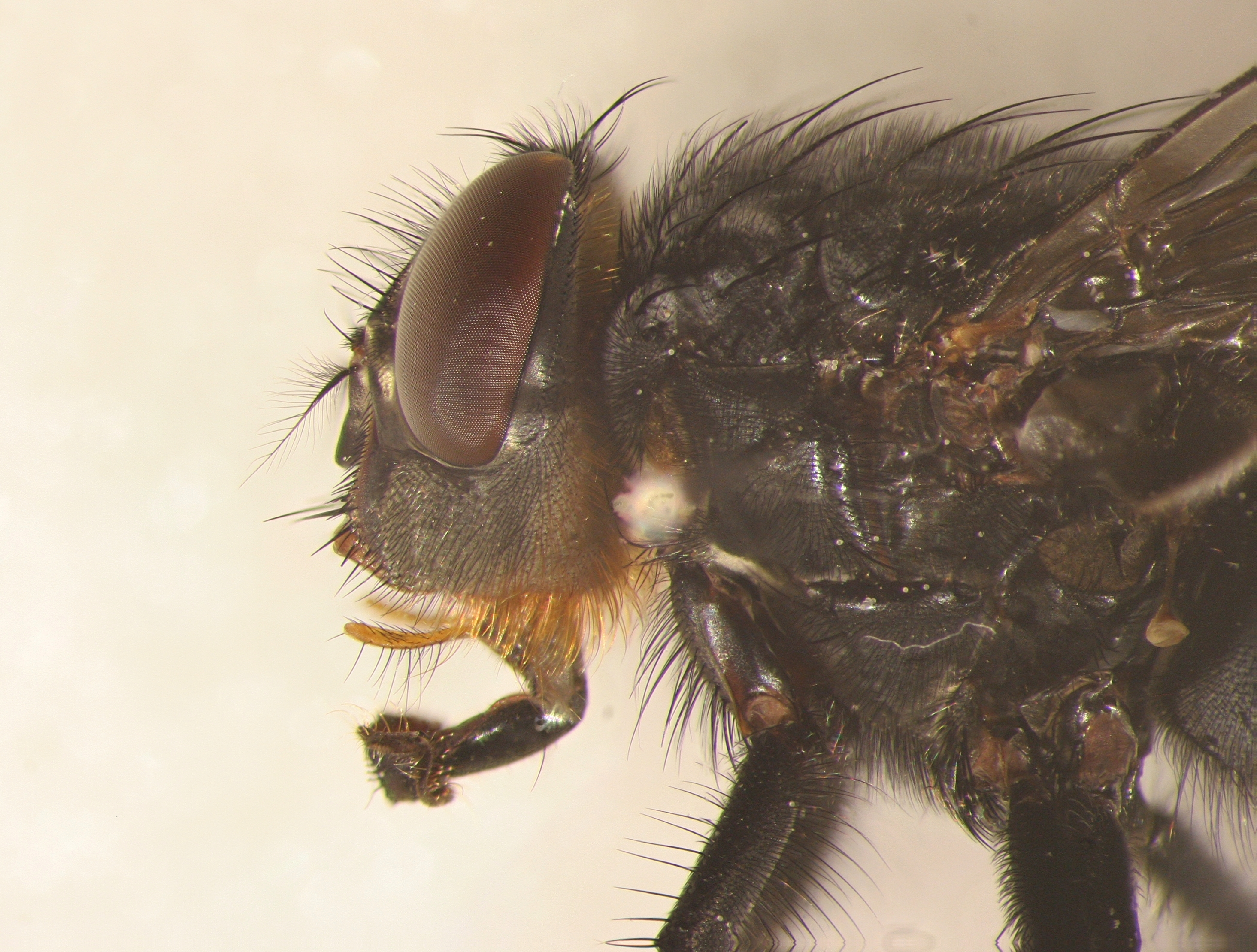 Lateral closeup of the head of a male Blue Bottle Fly, Calliphora vomitoria